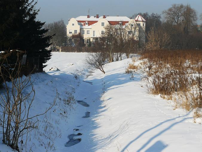 Strumien Junikowski River in Poznan, Grunwaldzka Street. Junikowo District.